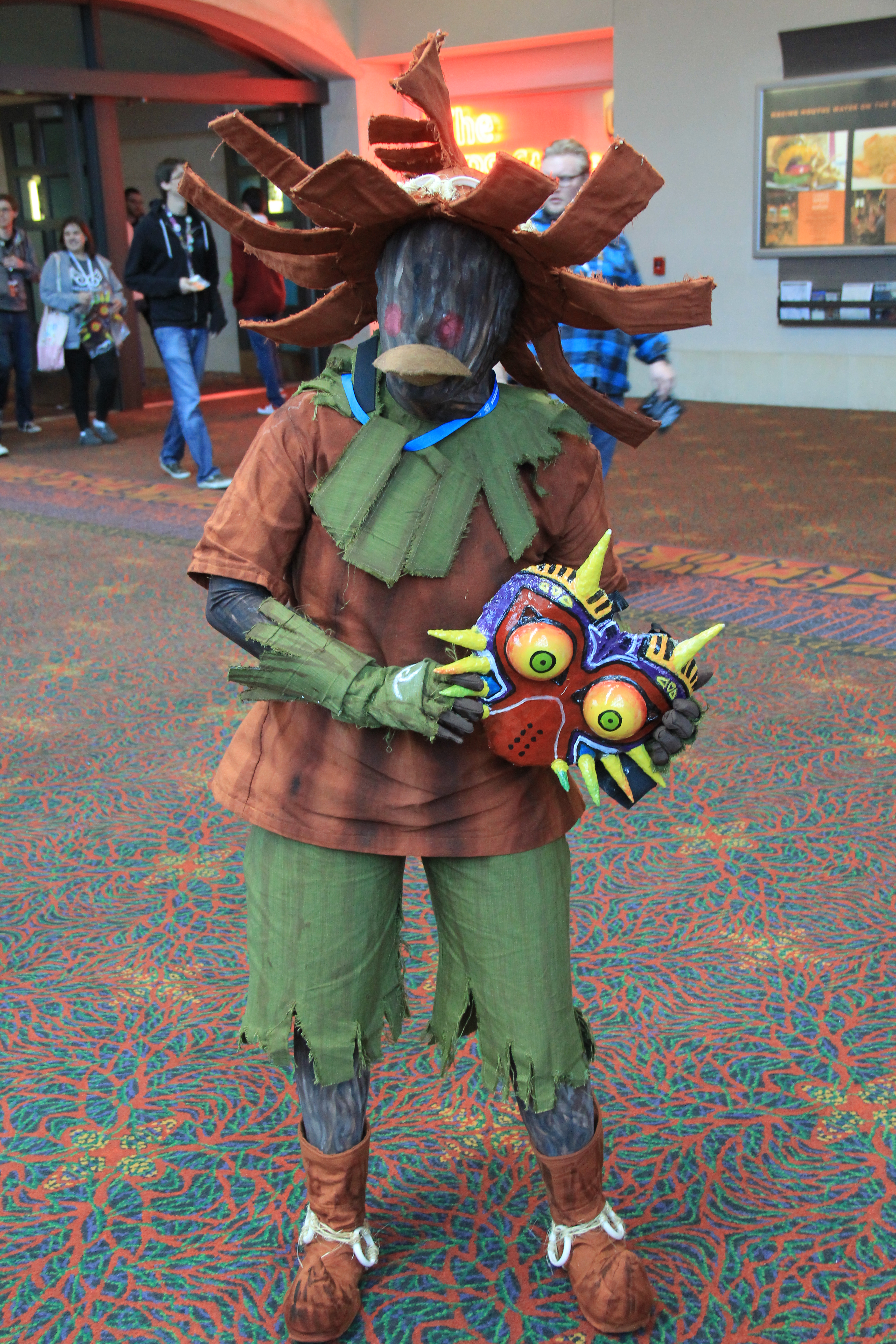 IMG_3514 Taken on day 1 of PAX South 2015.